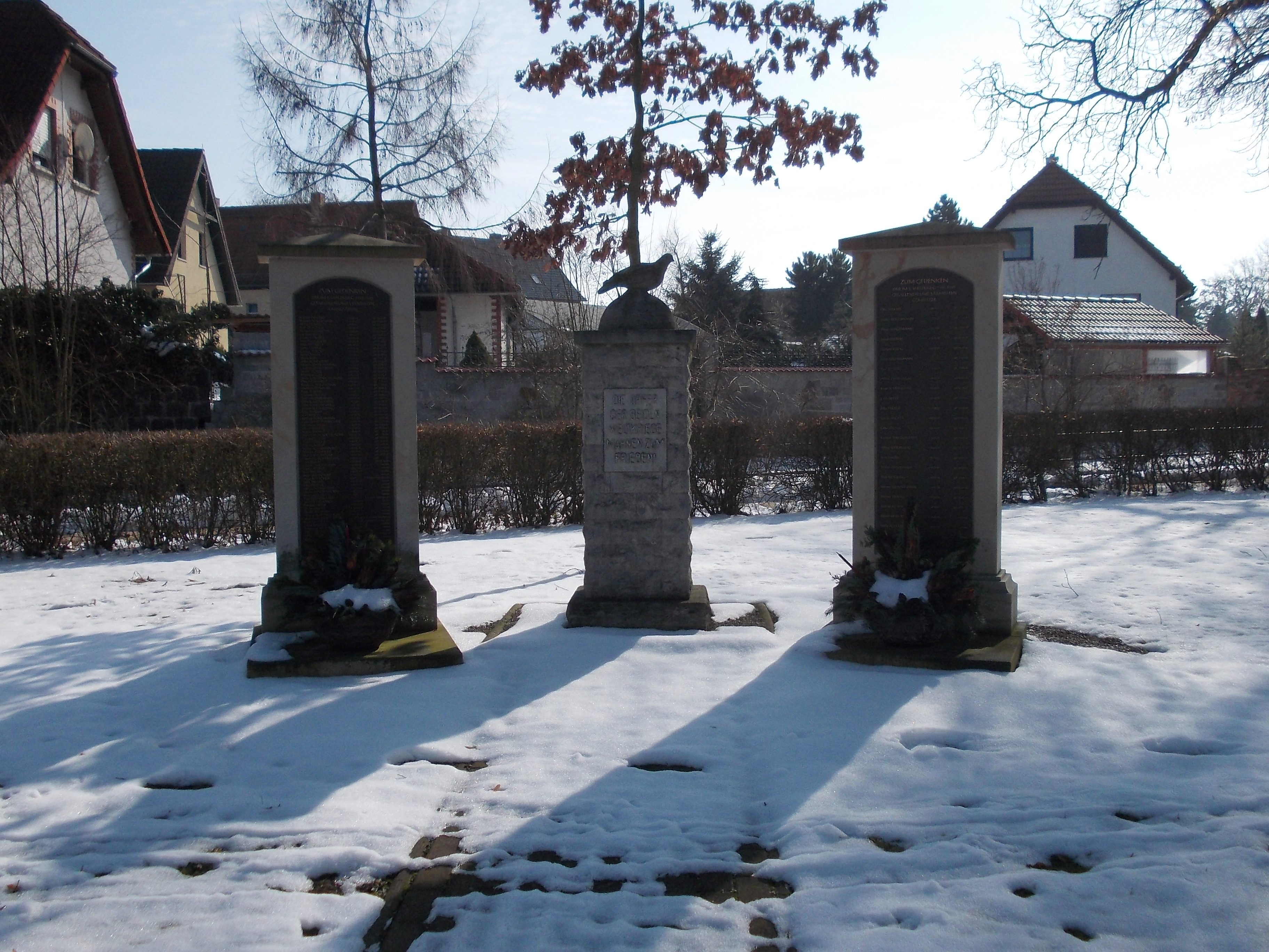 World War II memorial in Barnstädt (district of Saalekreis, Saxony-Anhalt)